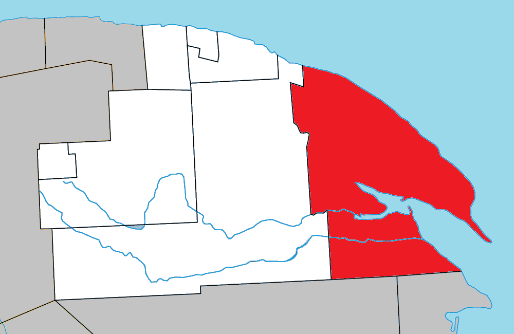 Location of Gaspé, Quebec within La Côte-de-Gaspé Regional County Municipality.